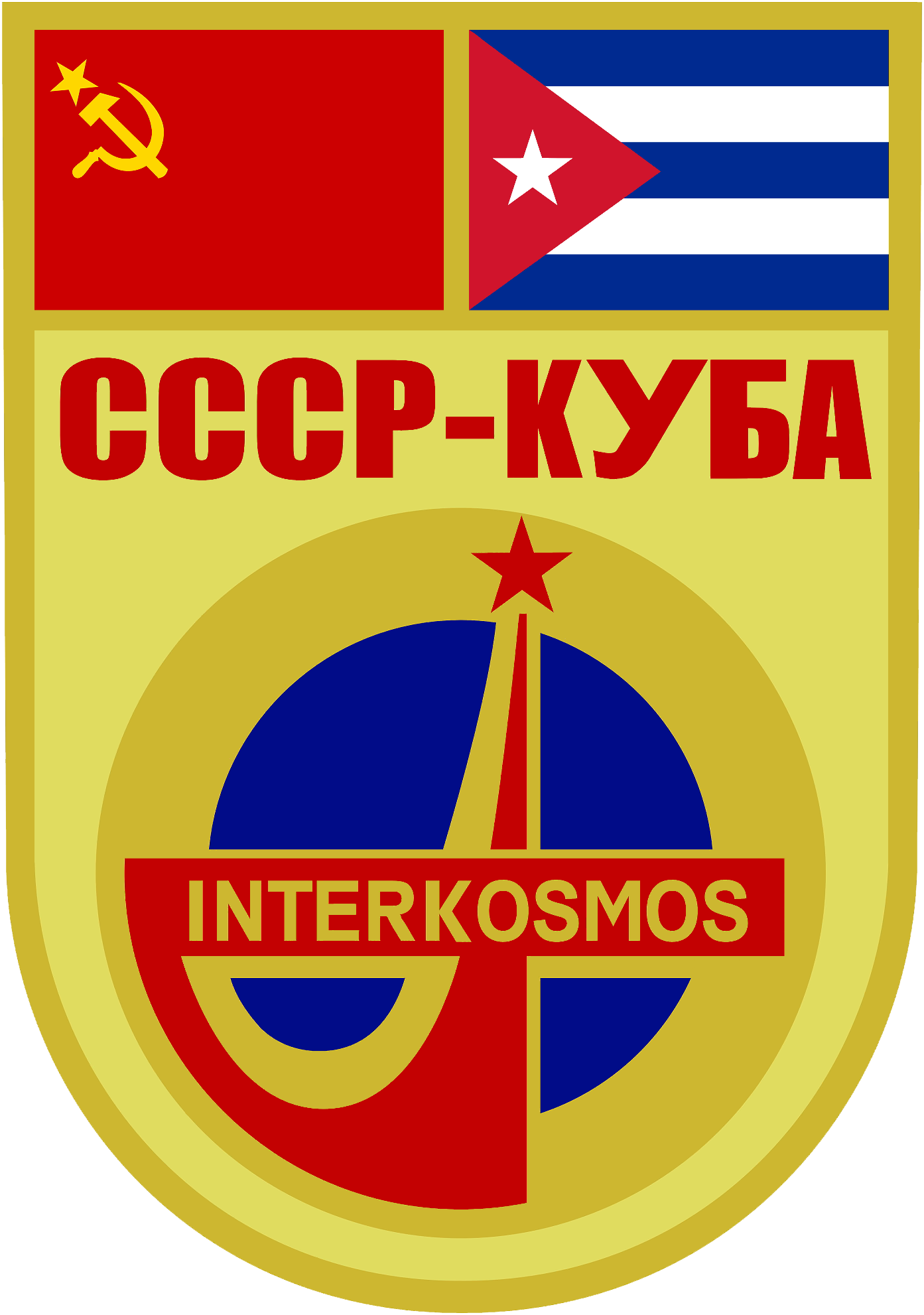 Soyuz 38 patch